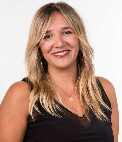 María José Hoffmann Opazo en la fotografía oficial de diputados periodo 2018-2022. (Fotos: Christel Andler, René Lescornez, Johanna Zárate)